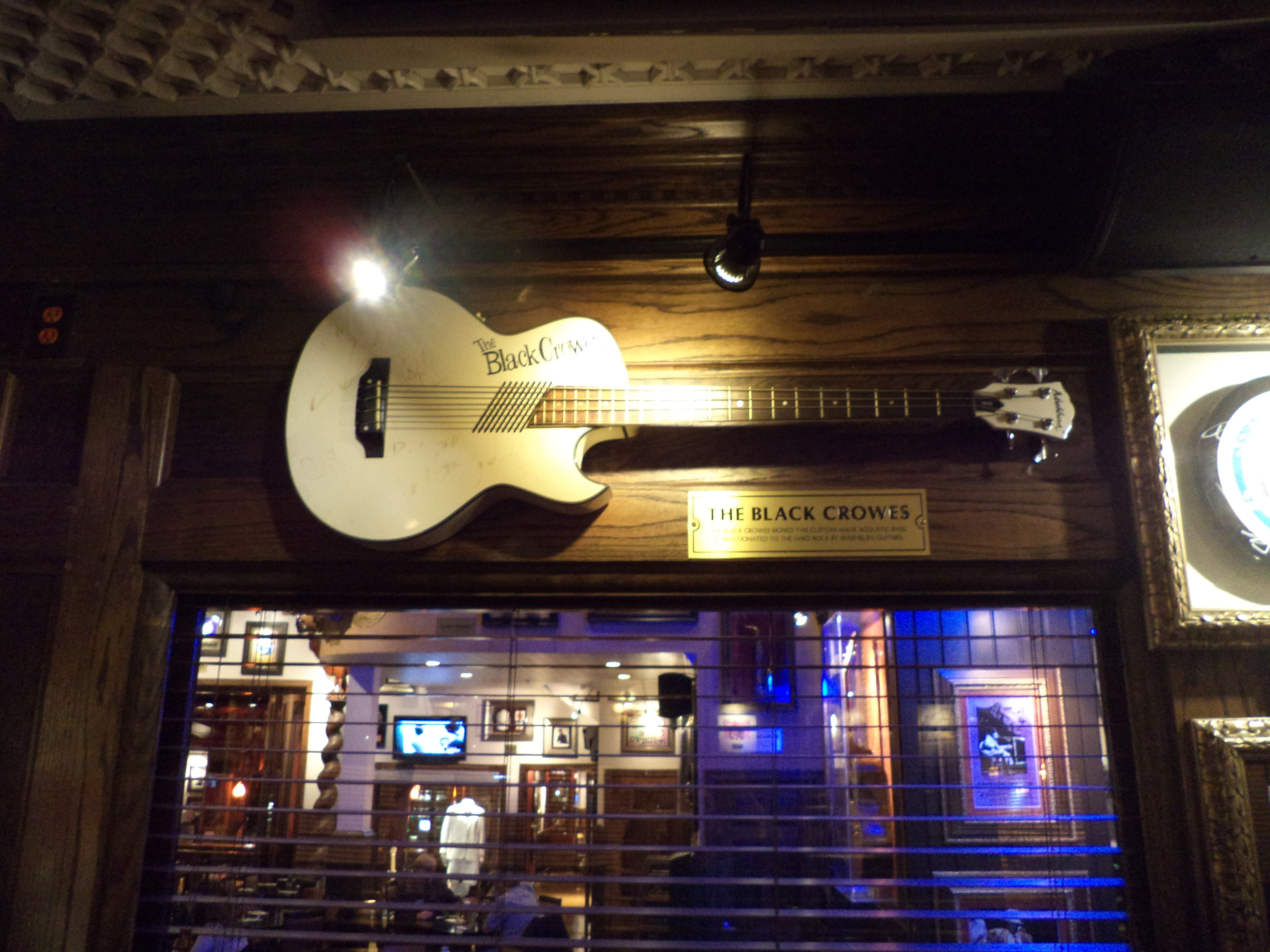 Hard Rock Cafe, Atlanta, Fulton County, Georgia